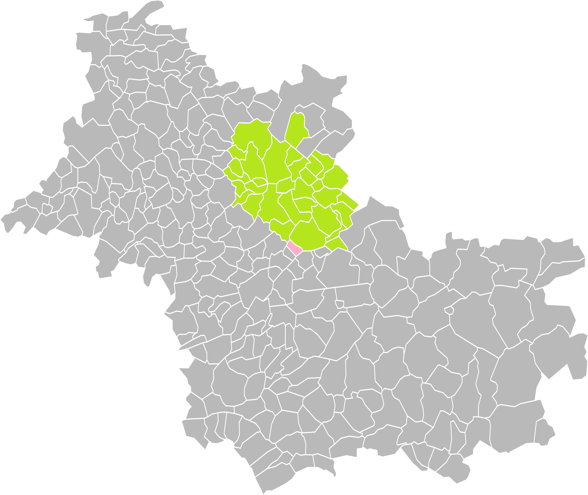 Location of the commune of Cour-sur-Loire in the Communauté de communes de la Beauce-Val de Loire (Loir-et-Cher)